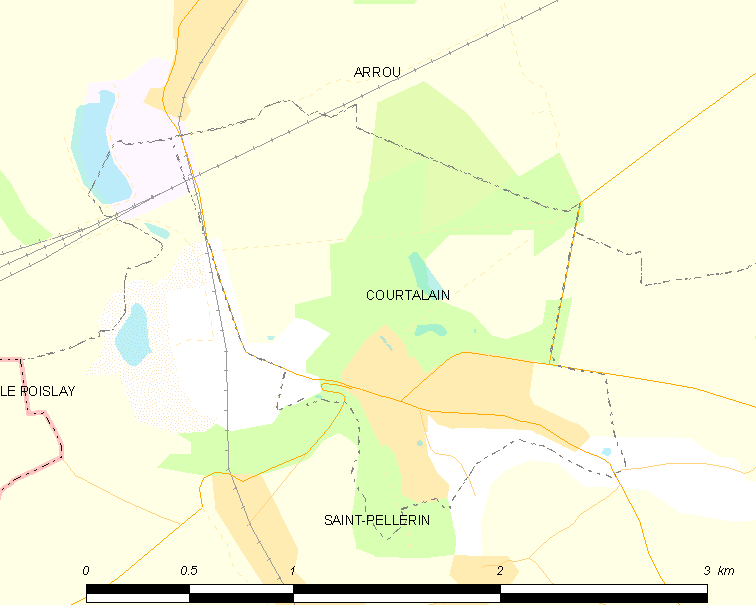 Map commune FR insee code 28115.png.